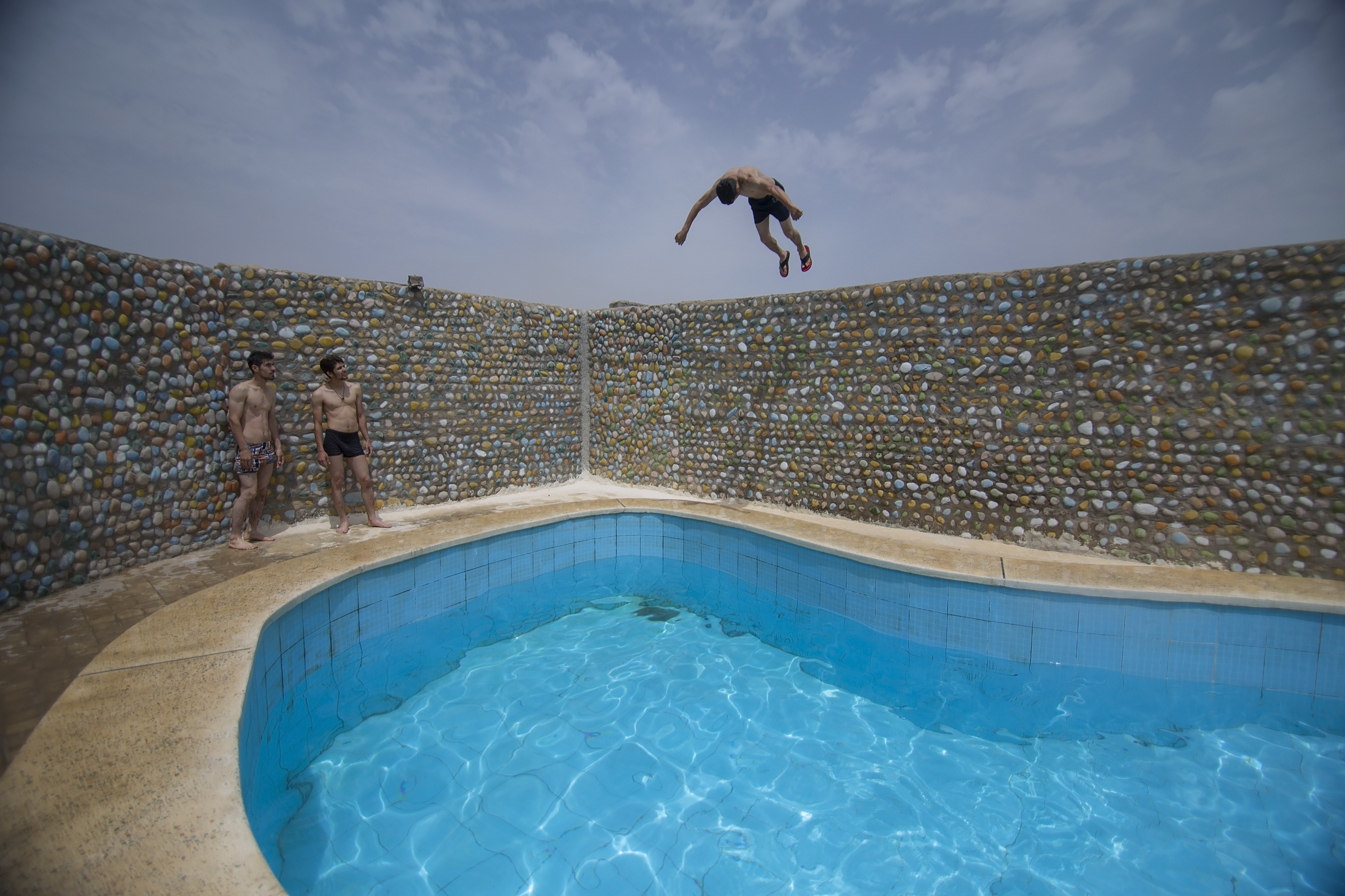 Diving is the sport of jumping or falling into water from a platform or springboard, usually while performing acrobatics.